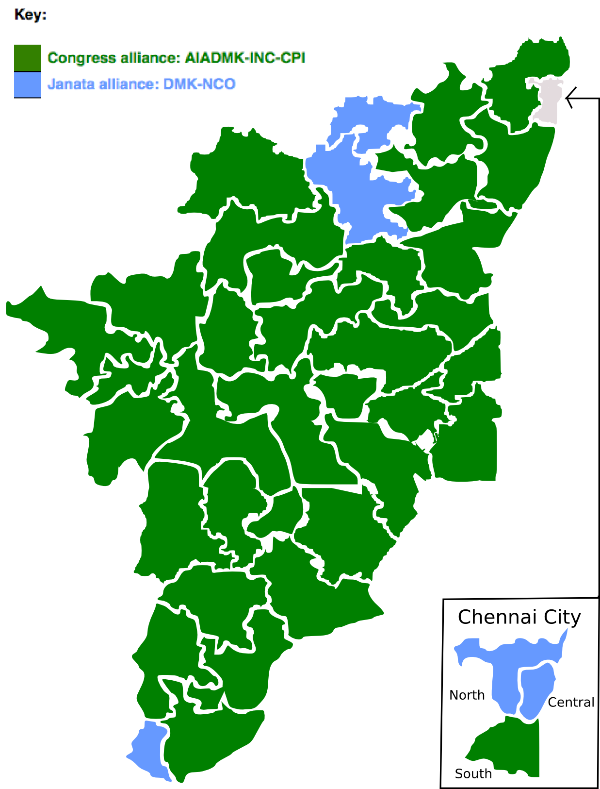 1977 Lok Sabha Election map for Tamil Nadu. Map is based on ECI drawn map. Results are based on ECI website.